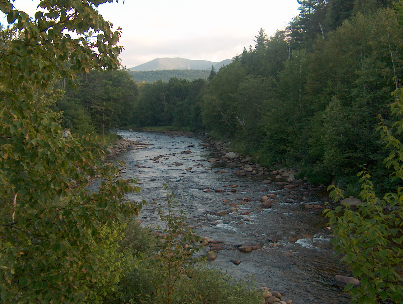 The Ammonoosuc River in the White Mountains of New Hampshire. Photo by Ken Gallager, July 2004.